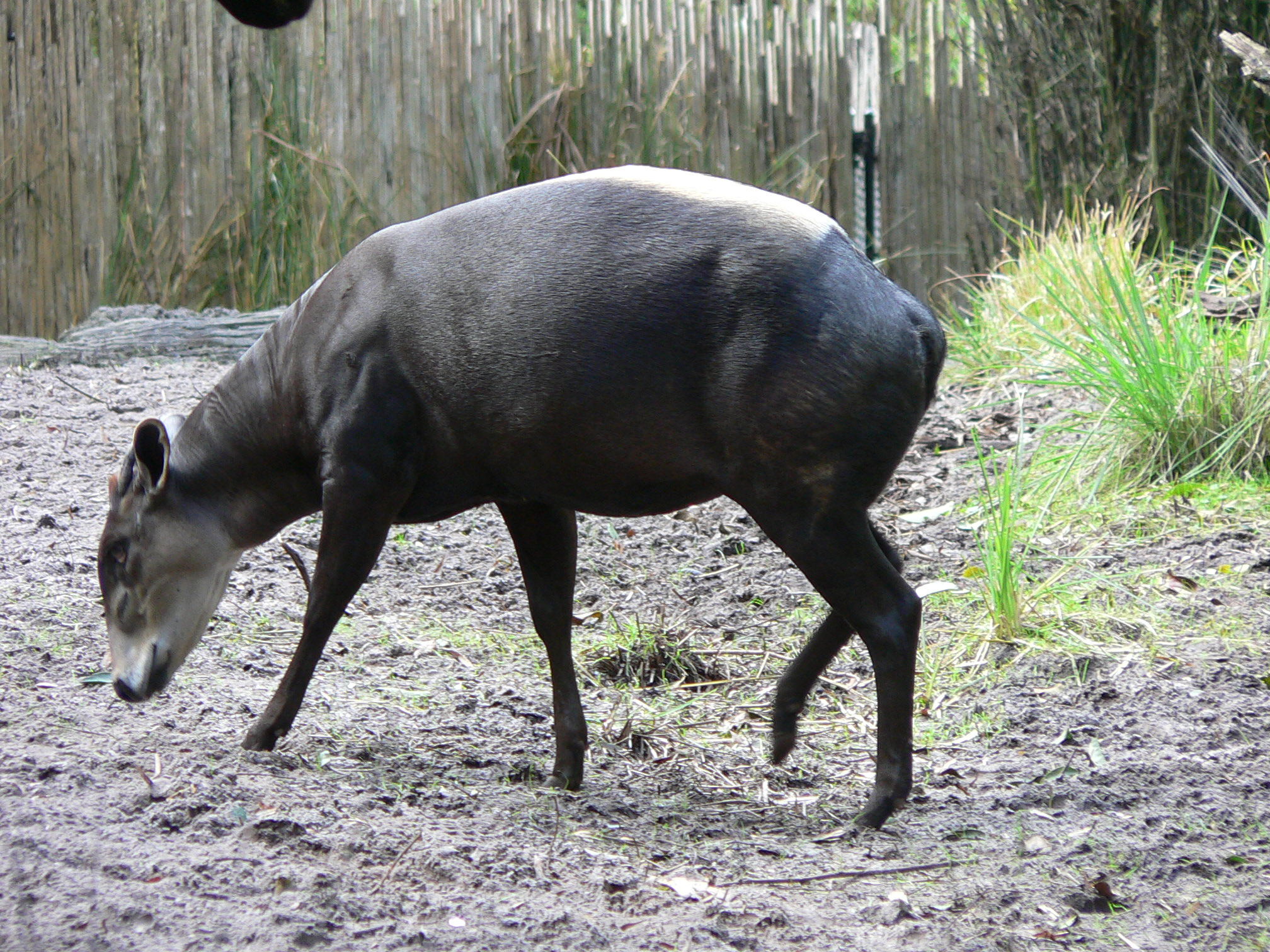 Yellow-backed Duiker